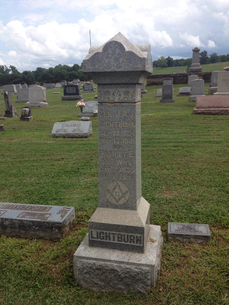 Photo of General Joseph A.J. Lightburn's headstone at Broad Run Church Cemetery